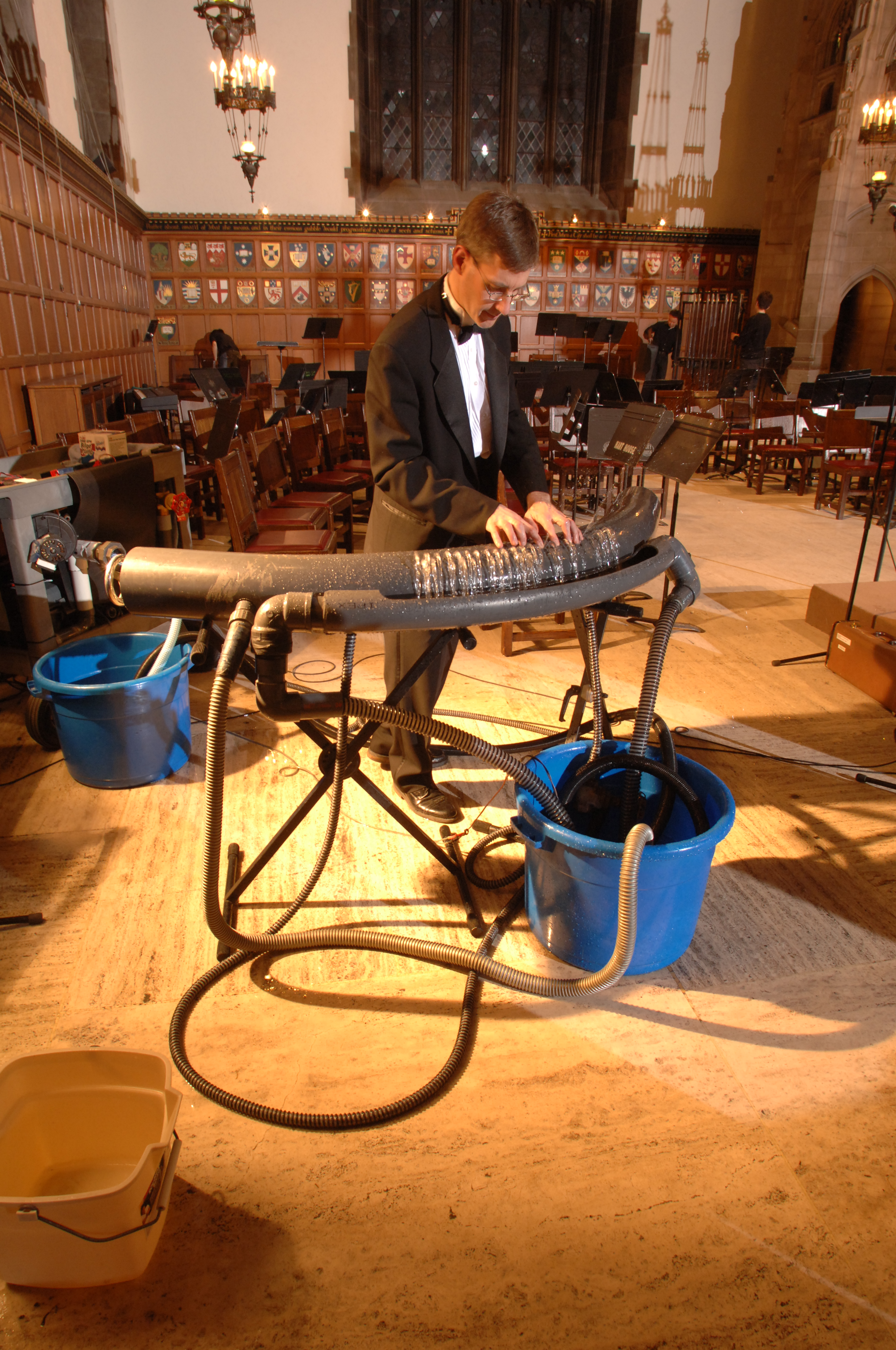 Conductor, Roger Mantie, pictured in the Great Hall, together with the hydraulophone used in Ryan Janzen's musical composition, Suite for Hydraulophone (m.II), Rain Breaks Open What Was Forgotten.